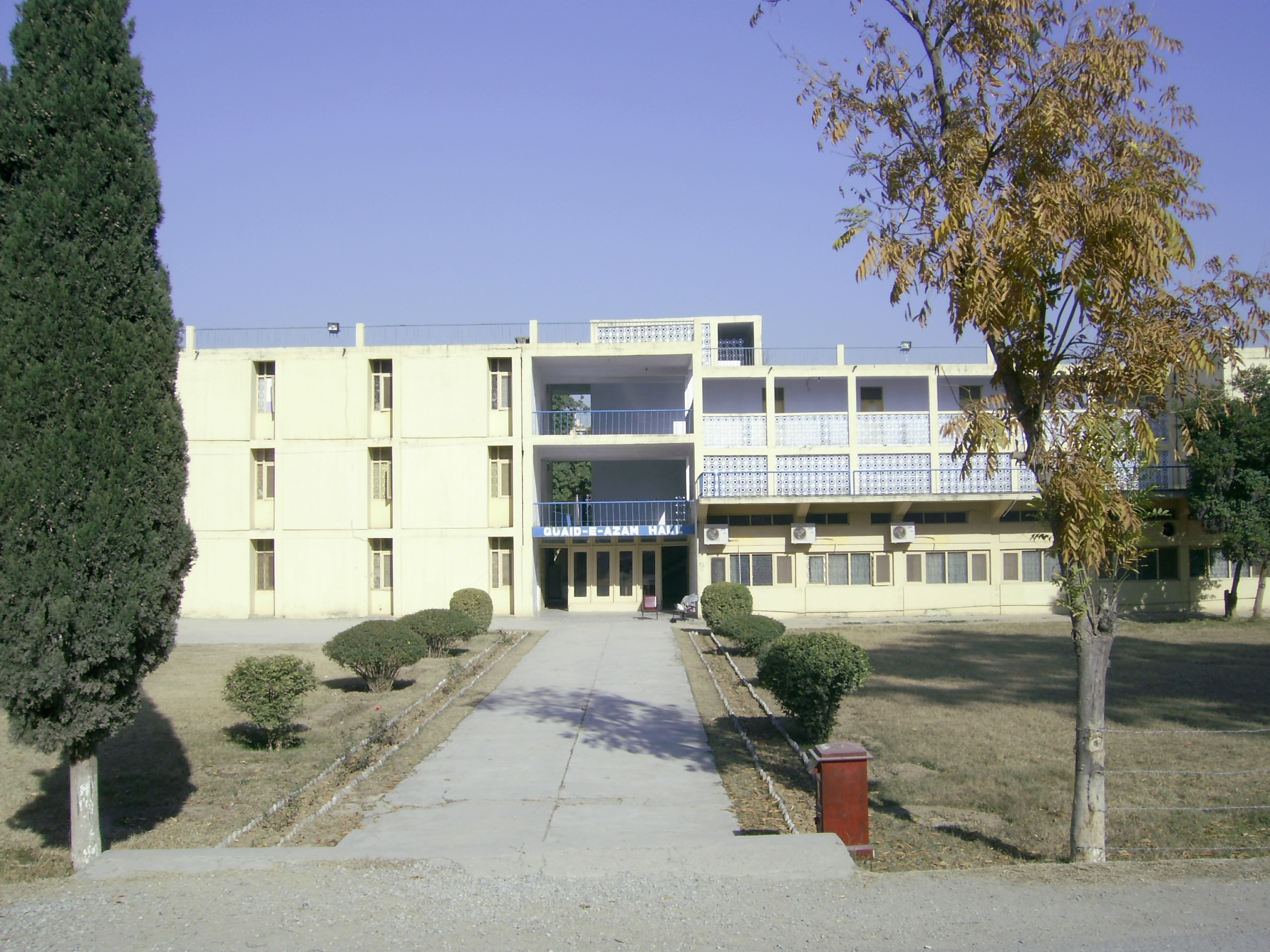 Quaid-e-Azam at University of Engineering and Technology